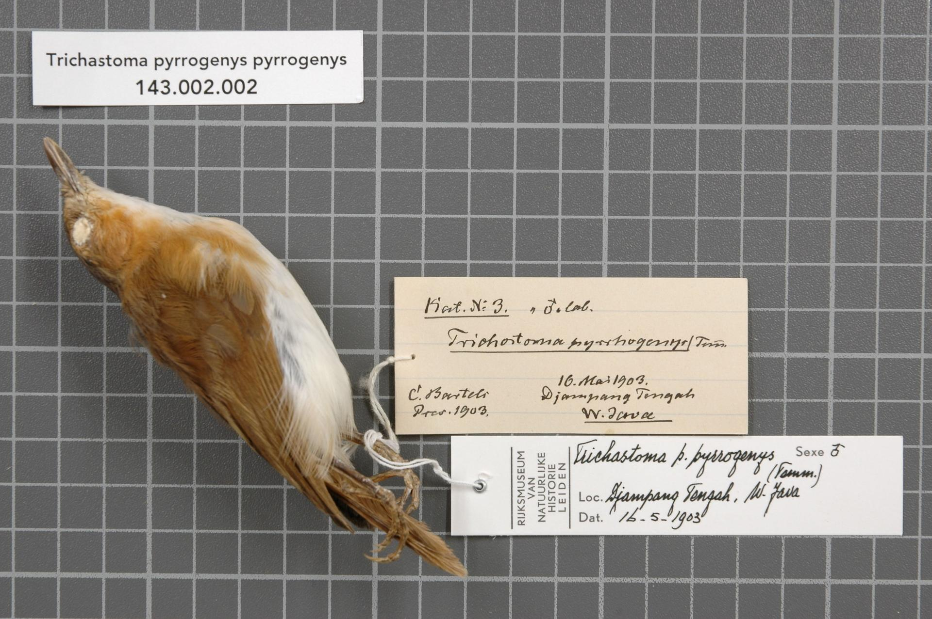 Trichastoma pyrrogenys pyrrogenys (Temminck, 1827)